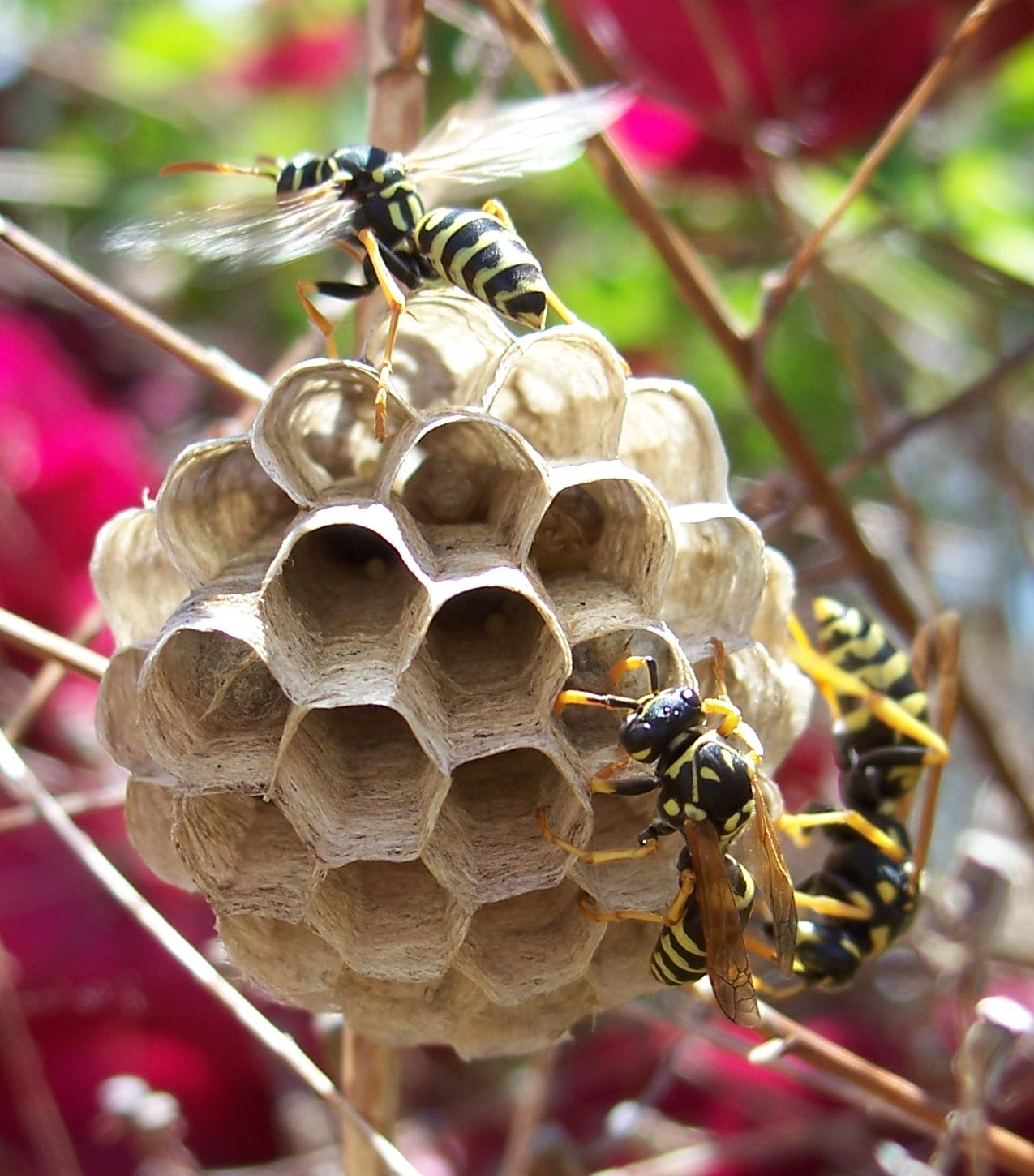 Nest of European Paper Wasp